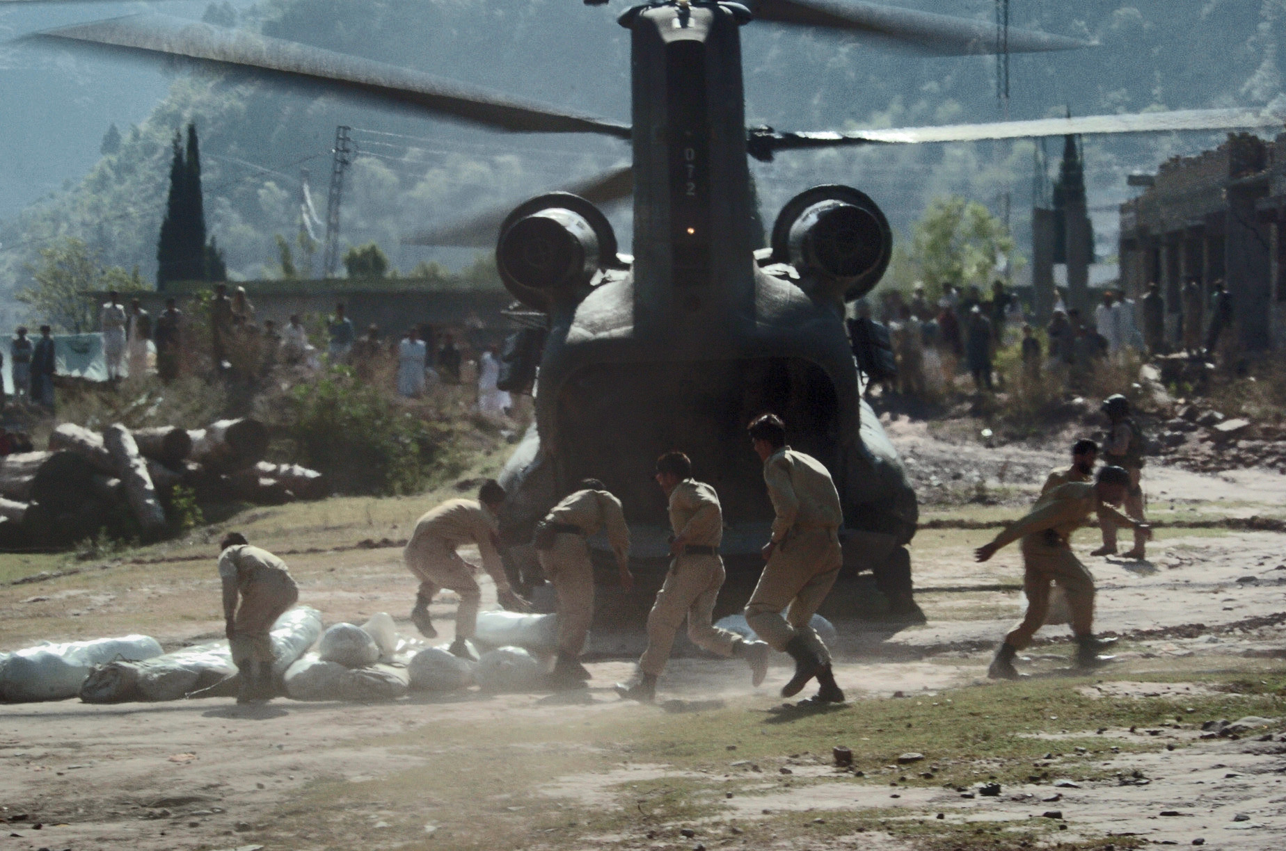 BALAKOT, Pakistan -- Pakistani Soldiers carry tents away from a U.S. Army CH-47 Chinook helicopter here Oct. 19. The United States is taking part in the multinational effort to provide humanitarian assistance and support to Pakistan and parts of India and Afghanistan following the devastating Oct. 8earthquake. (U.S. Navy photo by Photographer's Mate 2nd Class Timothy Smith)